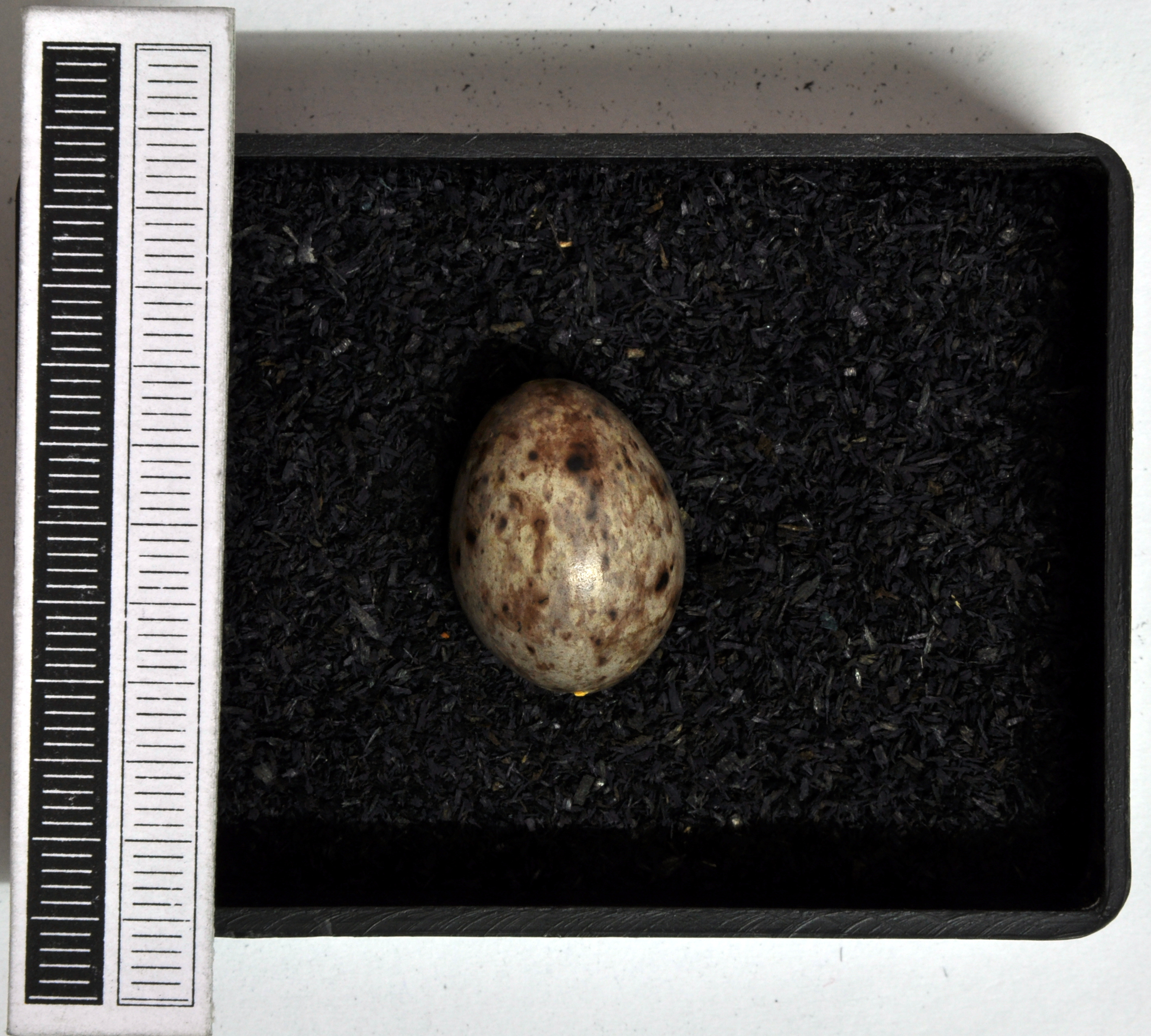 Tree pipit Anthus trivialis, egg, Coll. Museum Wiesbaden, Origin: Ämäl, Sweden, 13.06.1963, leg. W. Abelmann